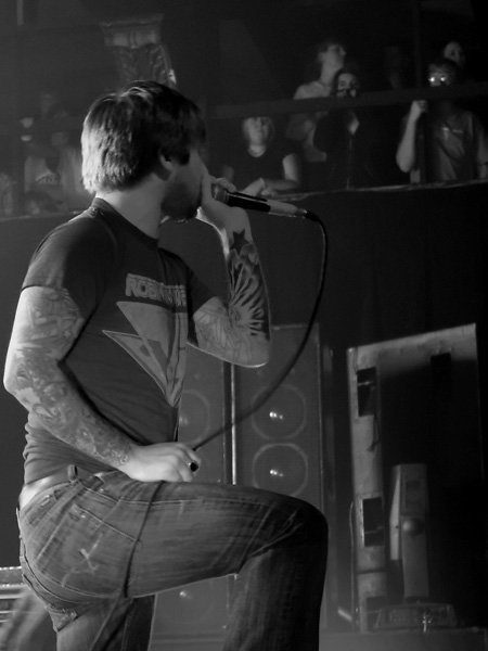 Keith Buckley of metalcore band Every Time We Die singing live in Milawakee.